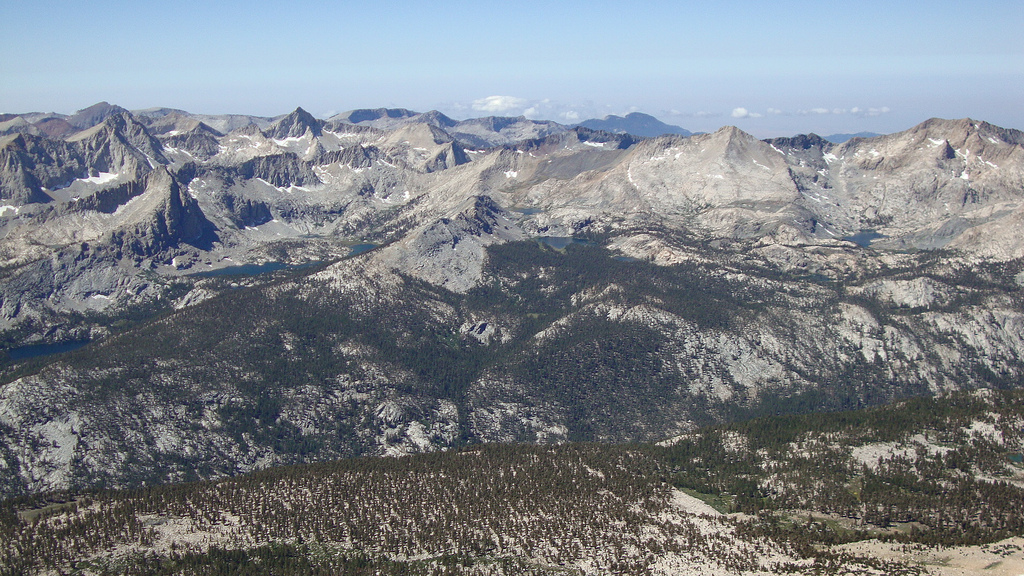 The Great Western Divide from the summit of Mount Kaweah, Sequoia National Park, California